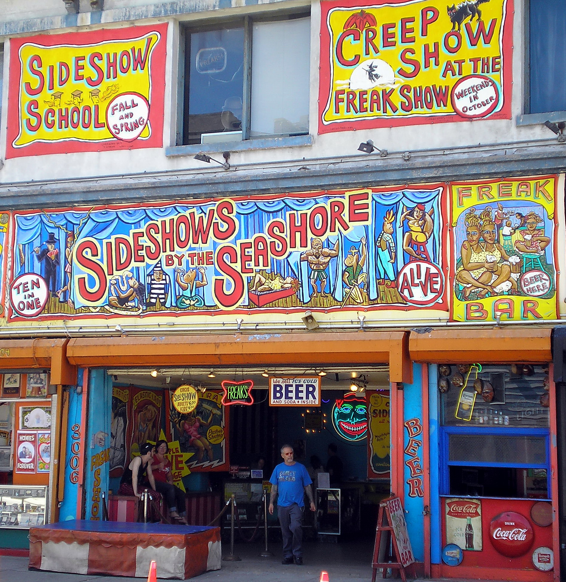 Coney Island and its popular on-going freak show.